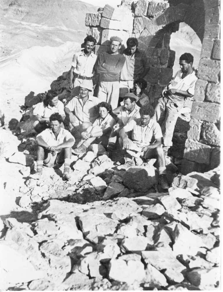 The Palmach, Israel Defense Forces